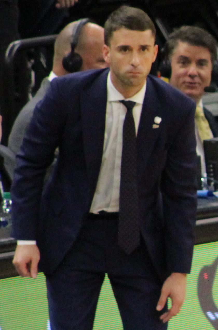 Interim head coach Ryan Saunders of the Minnesota Timberwolves